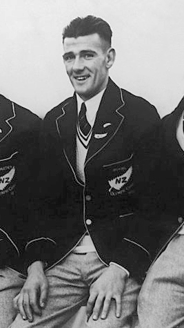 New Zealand athletes on board Wanganella on their way to the Berlin Olympics, 14th June 1936. Thomas Arbuthnott.